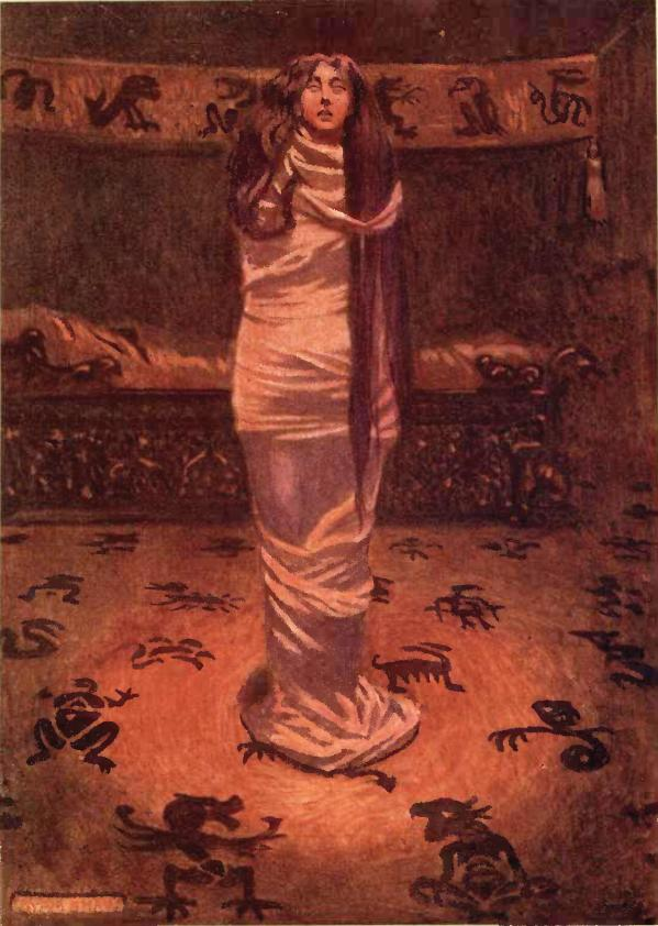 Byam Shaw's illustration for Poe's Ligeia in "Selected Tales of Mystery" (London : Sidgwick & Jackson, 1909) on the page to face p. 134 with caption "The thing that was enshrouded advanced boldly and palpably into the middle of the apartment"